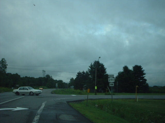 Eastbound on New York State Route 365 at the northern terminus of New York State Route 291 in the town of Marcy.